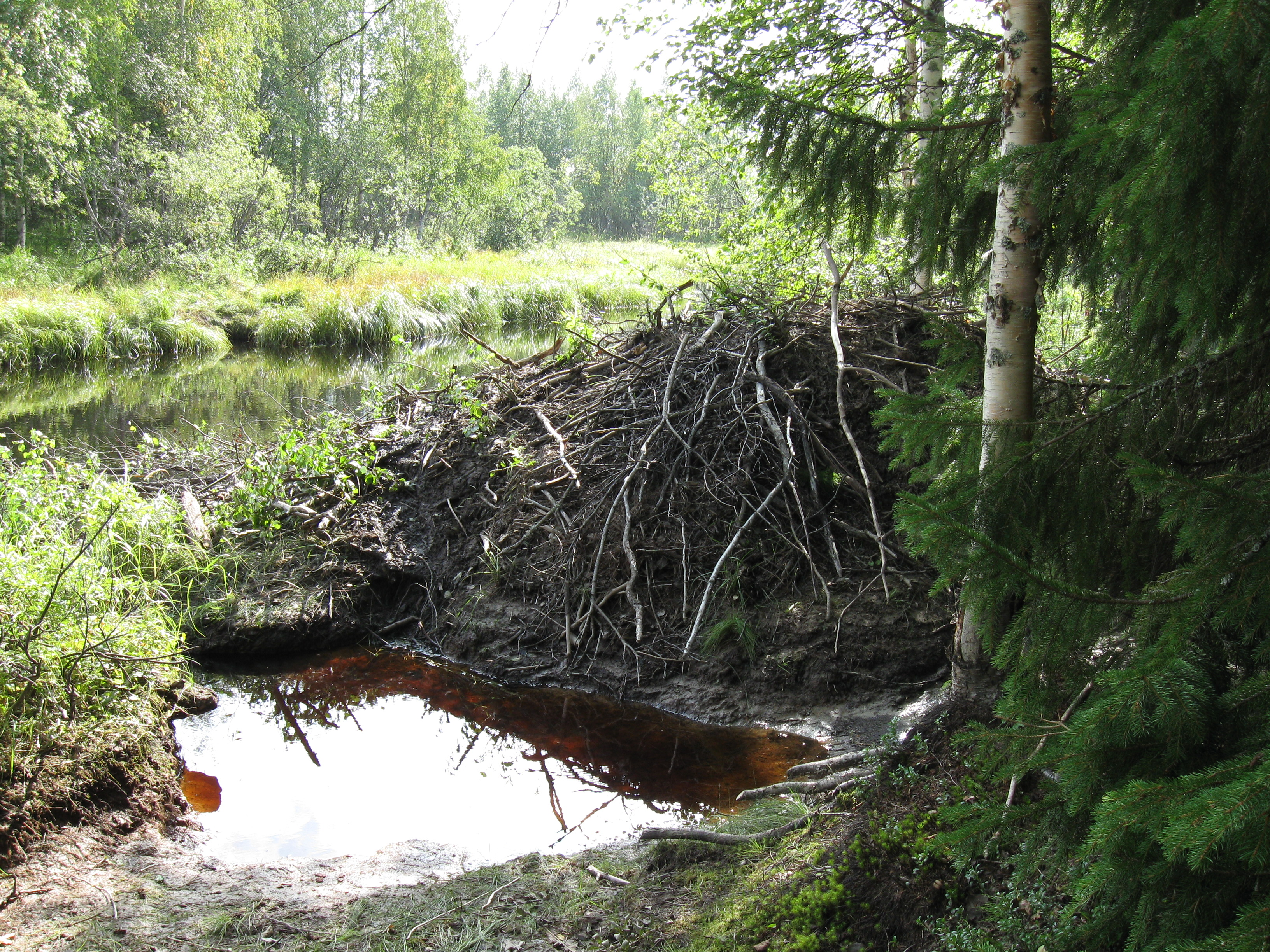 A beaver lodge (most likely Castor Canadensis) at the bench of a small river in a riparian forest, in Northern Finland.